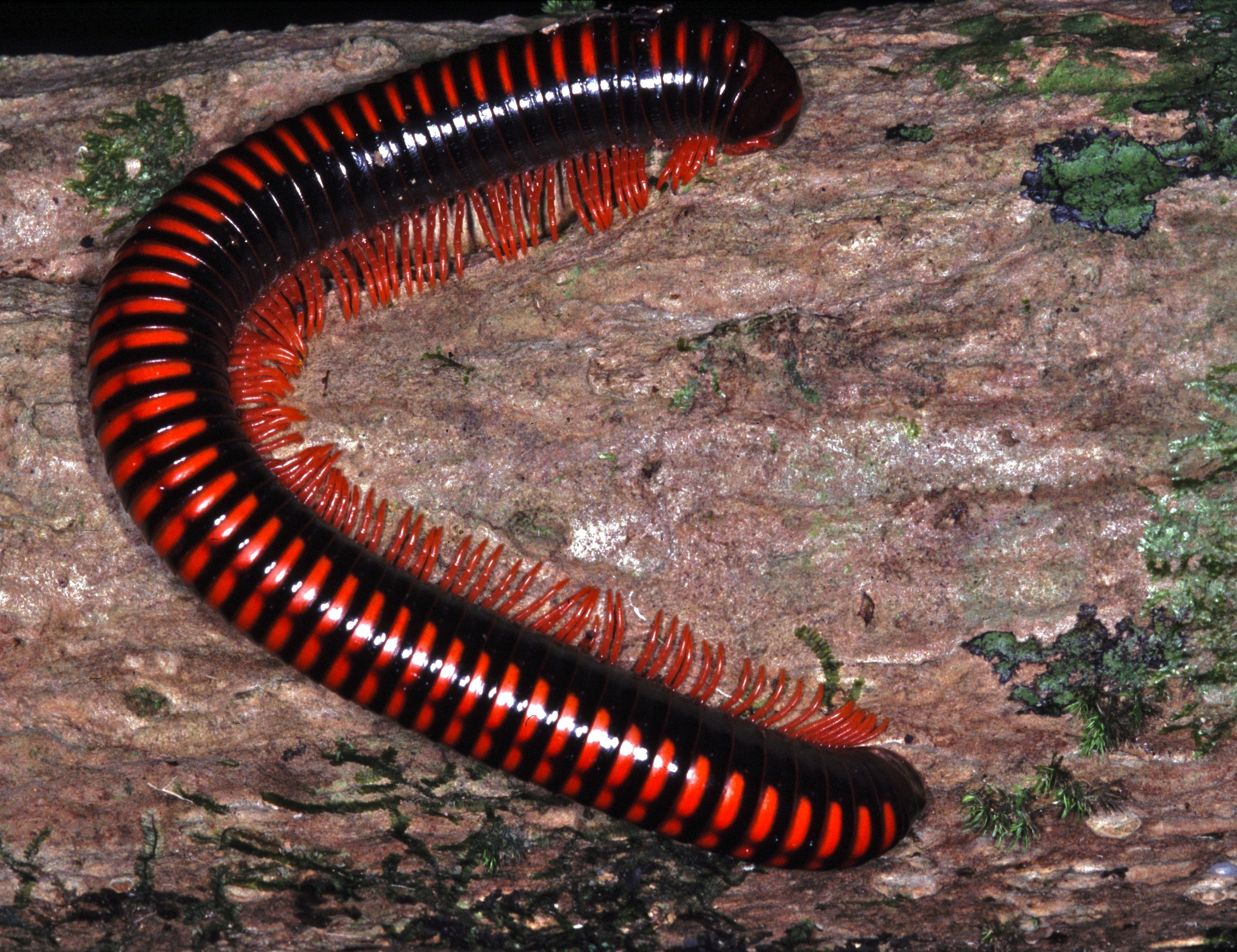 Nosy Mangabe, MADAGASCAR Scanned Slide from 2004